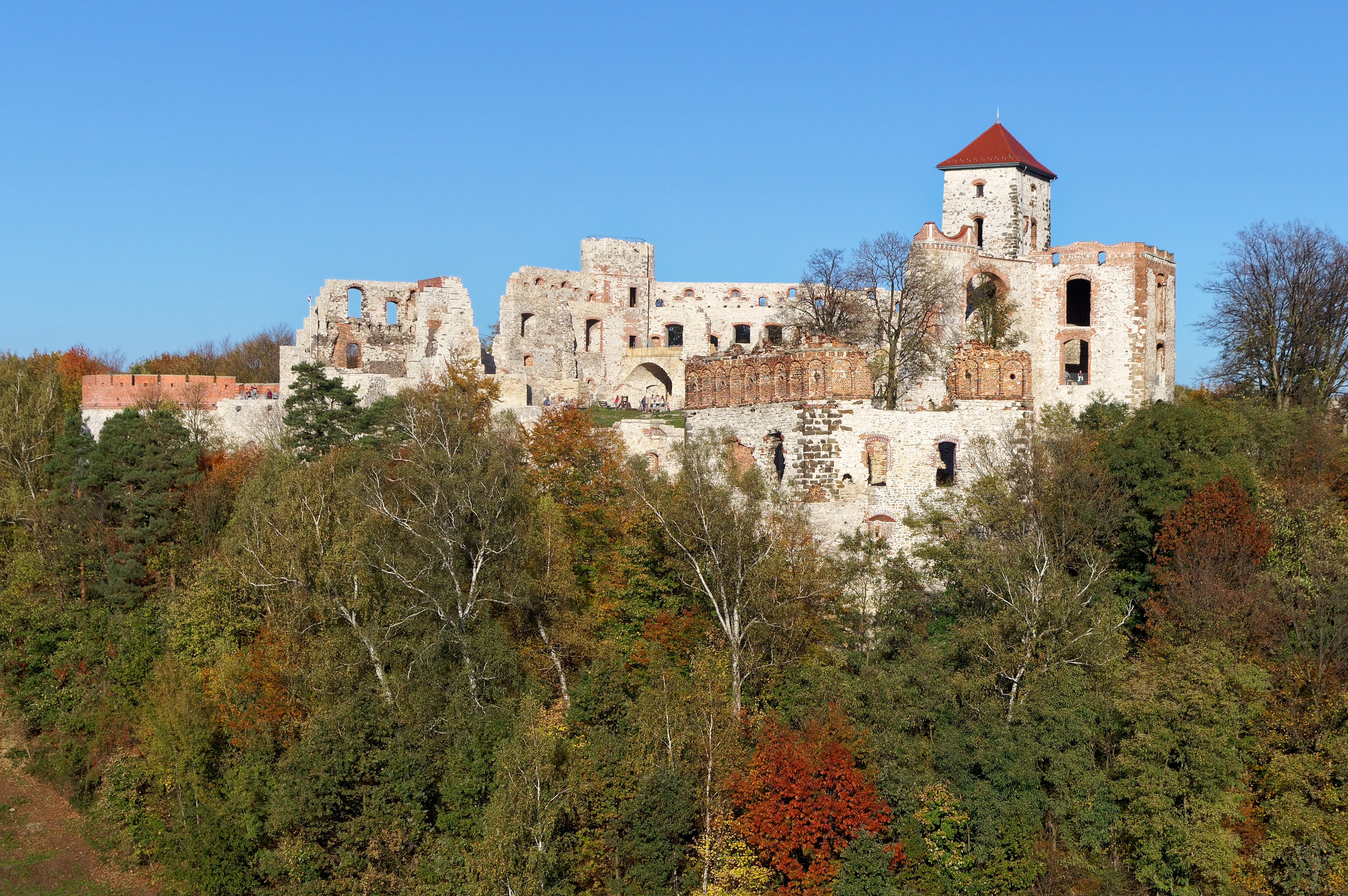 Tenczyn Castle in Rudno